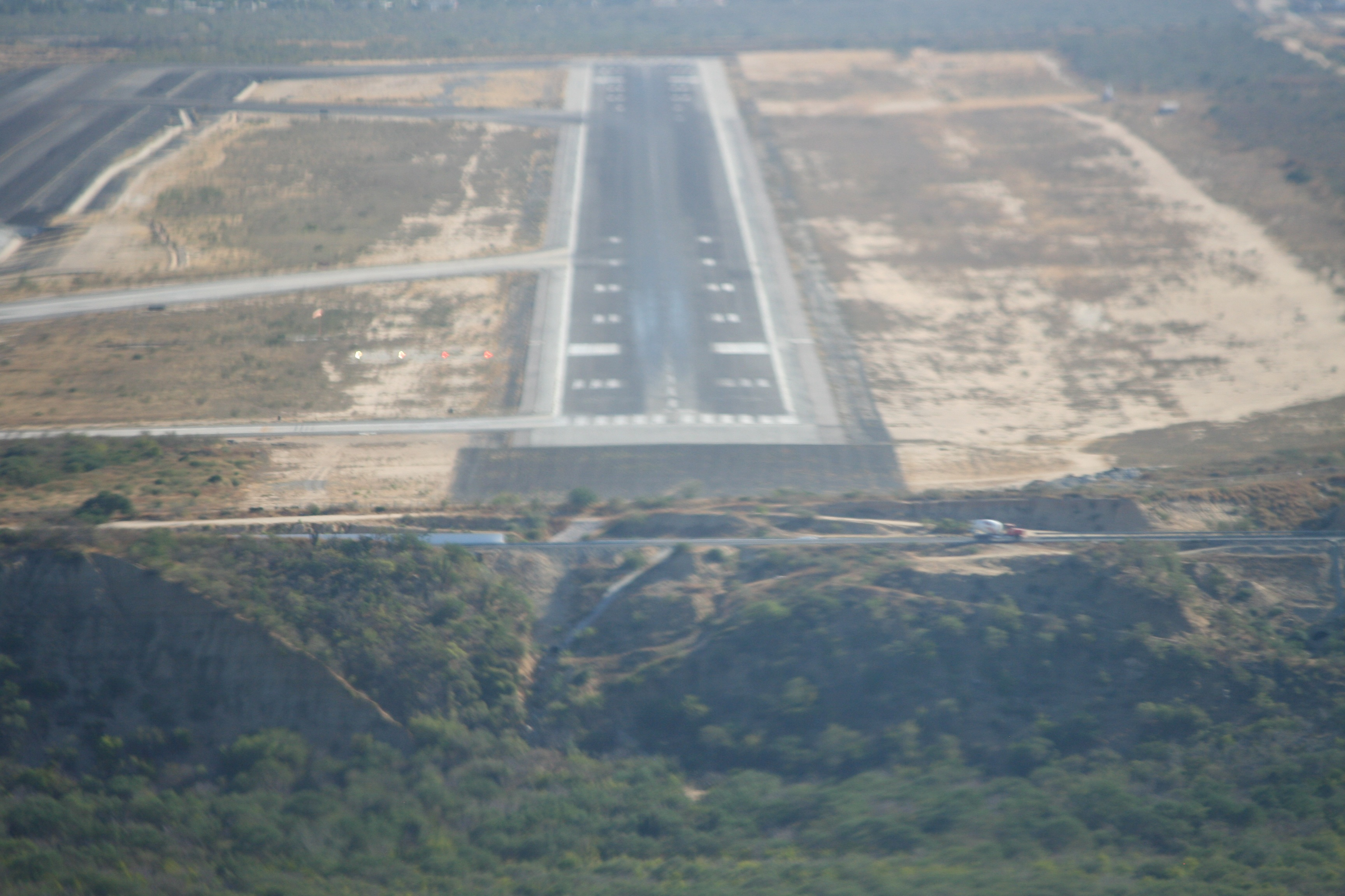 Final Approach to runway 16. Los Cabos International Airport (SJD).